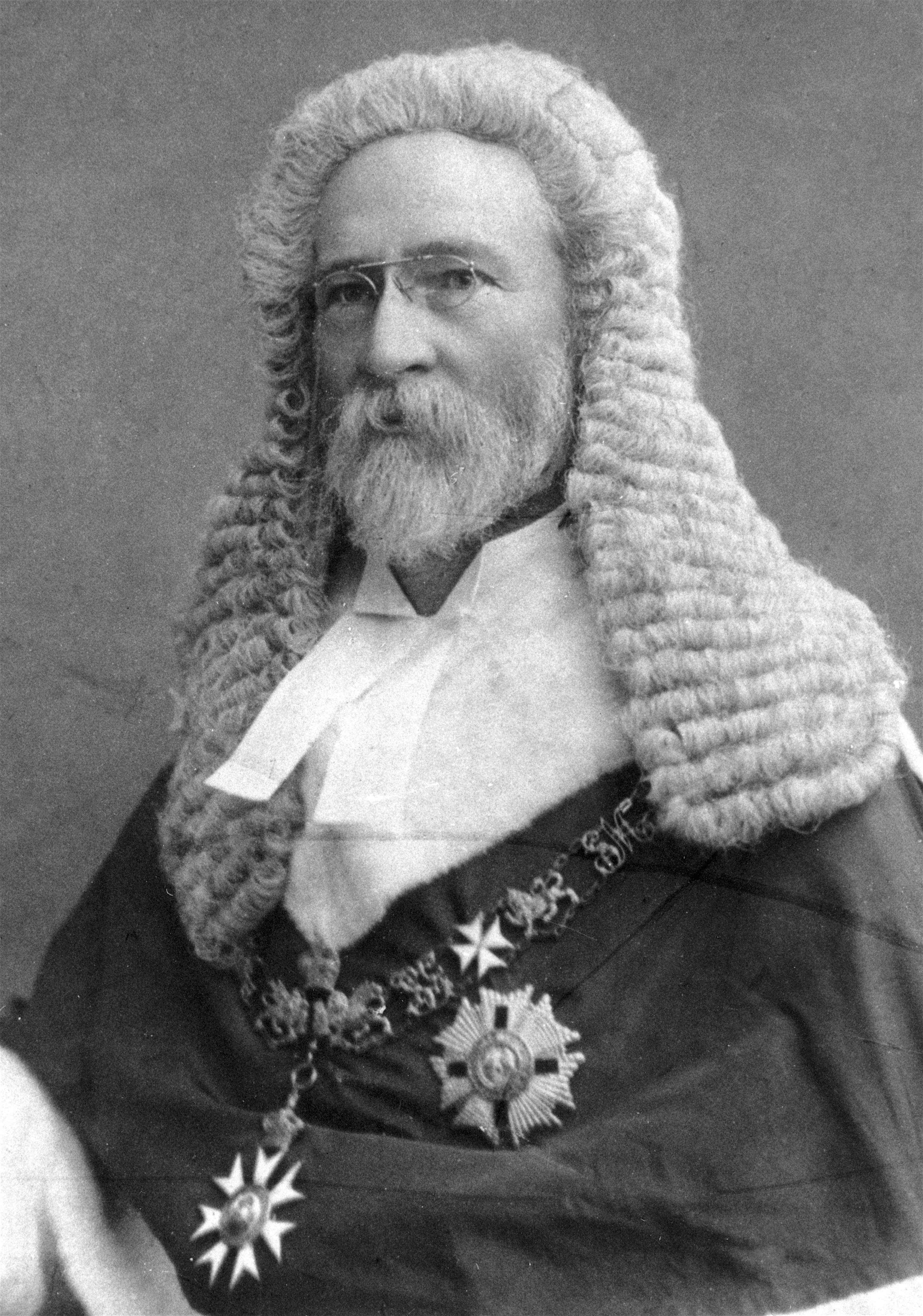 Sir Samuel Walker Griffith (1845-1920) GCMG in his judicial regalia, wearing the badge and star of the Order of St Michael and St George